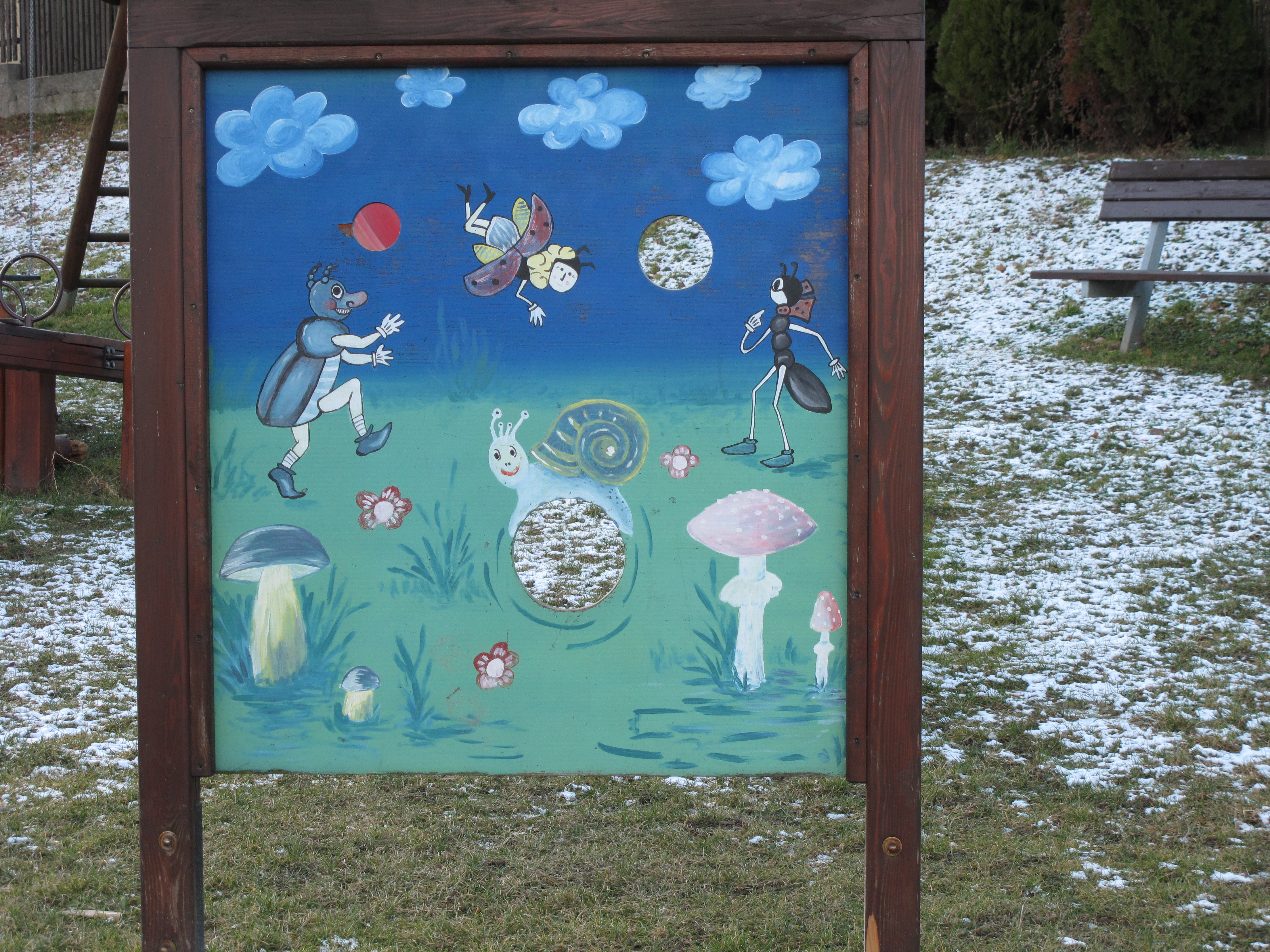 Part of childrens playground in Libovice village, Kladno District, Czech Republic.